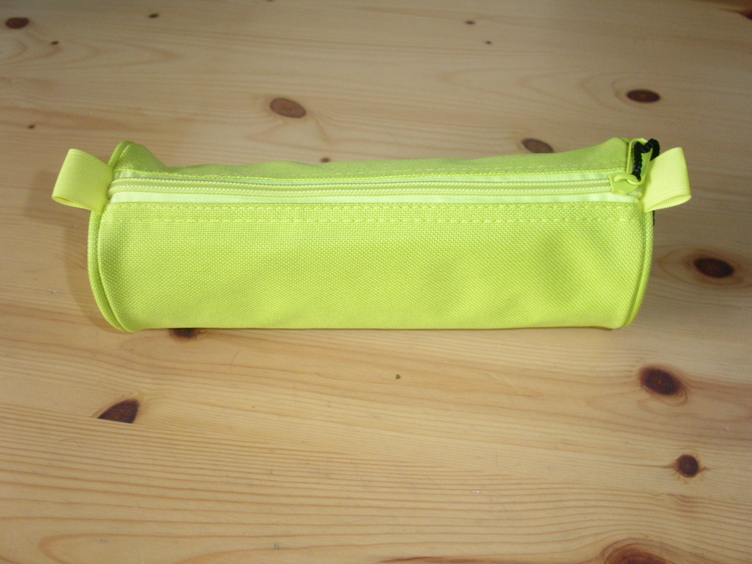 picture of a green case.